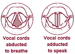 Vocal folds. When the intrinsic muscles of the larynx contract, they pull on the arytenoid cartilages, which causes them to pivot. Contraction of the posterior cricoarytenoid muscle, for example, moves the vocal folds apart (abduction), thereby opening the rima glottidis. By contrast, contraction of the lateralcricoarytenoid muscle moves the vocal folds together (adduction), therby closing the rima glottidis.